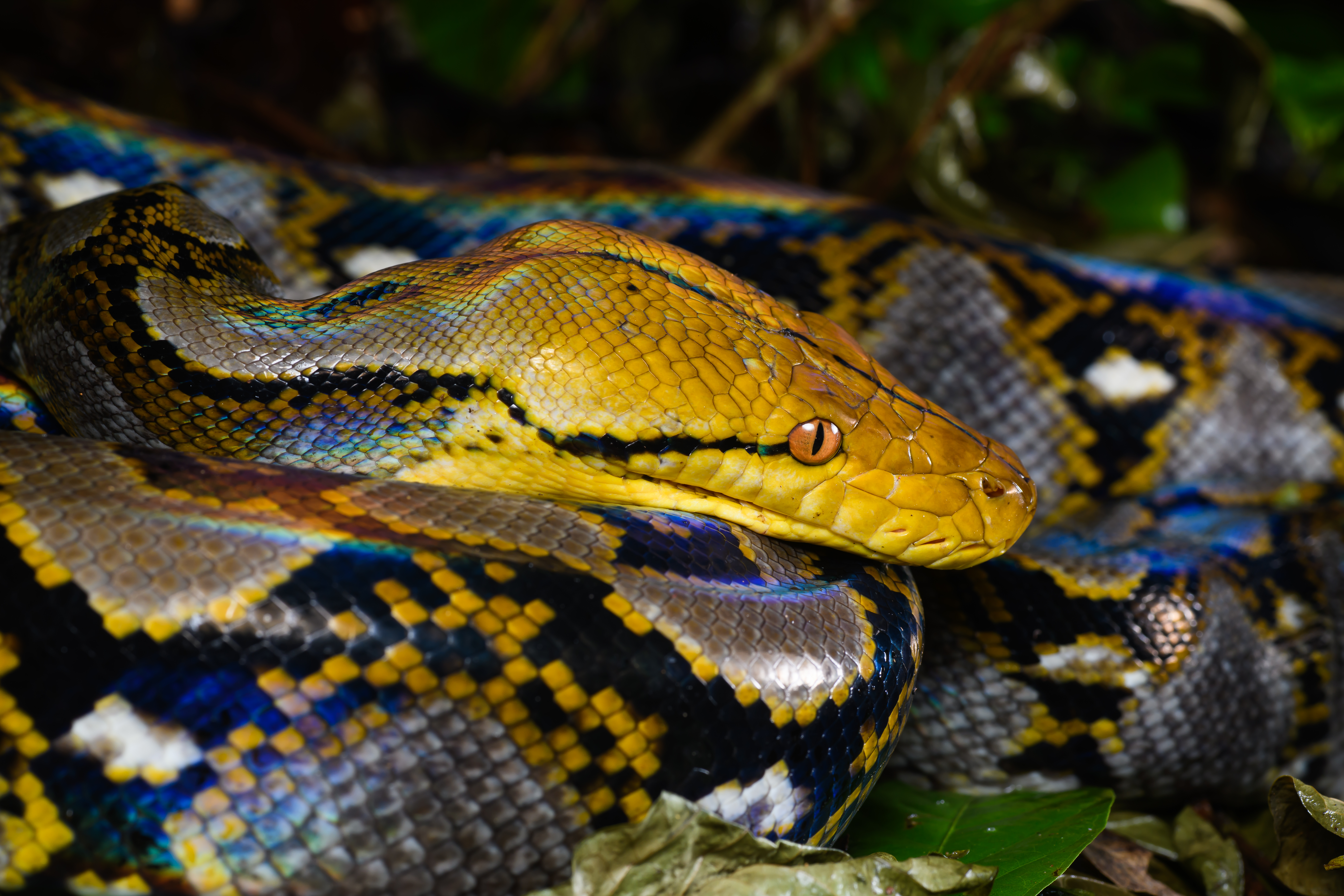 Reticulated python (Malayopython reticulatus). Kaeng Krachan District, Phetchaburi Province, Thailand